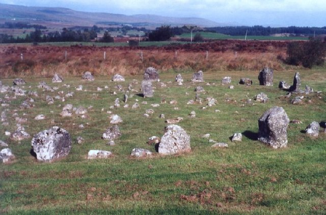 Beaghmore Stone Circles, Co Tyrone. Extensive stone circle complex, dating back to 1500 B.C. Discovered in 1945 during peat cutting,7 circles and 9 rows can be seen.